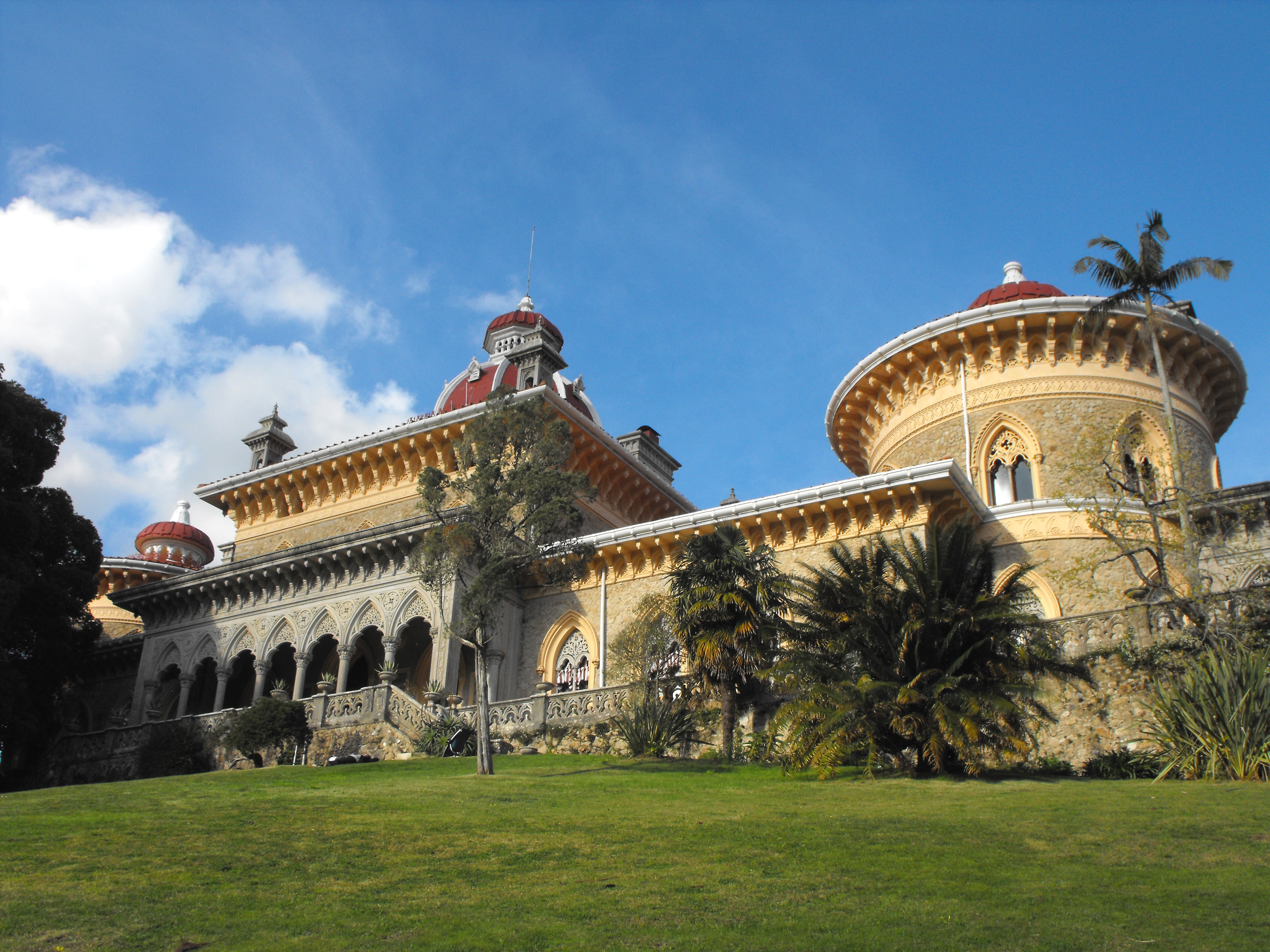 This file was uploaded for Wiki Loves Monuments in Portugal with the unique identifier 72839.